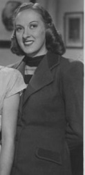 Vivian Ray- actriz